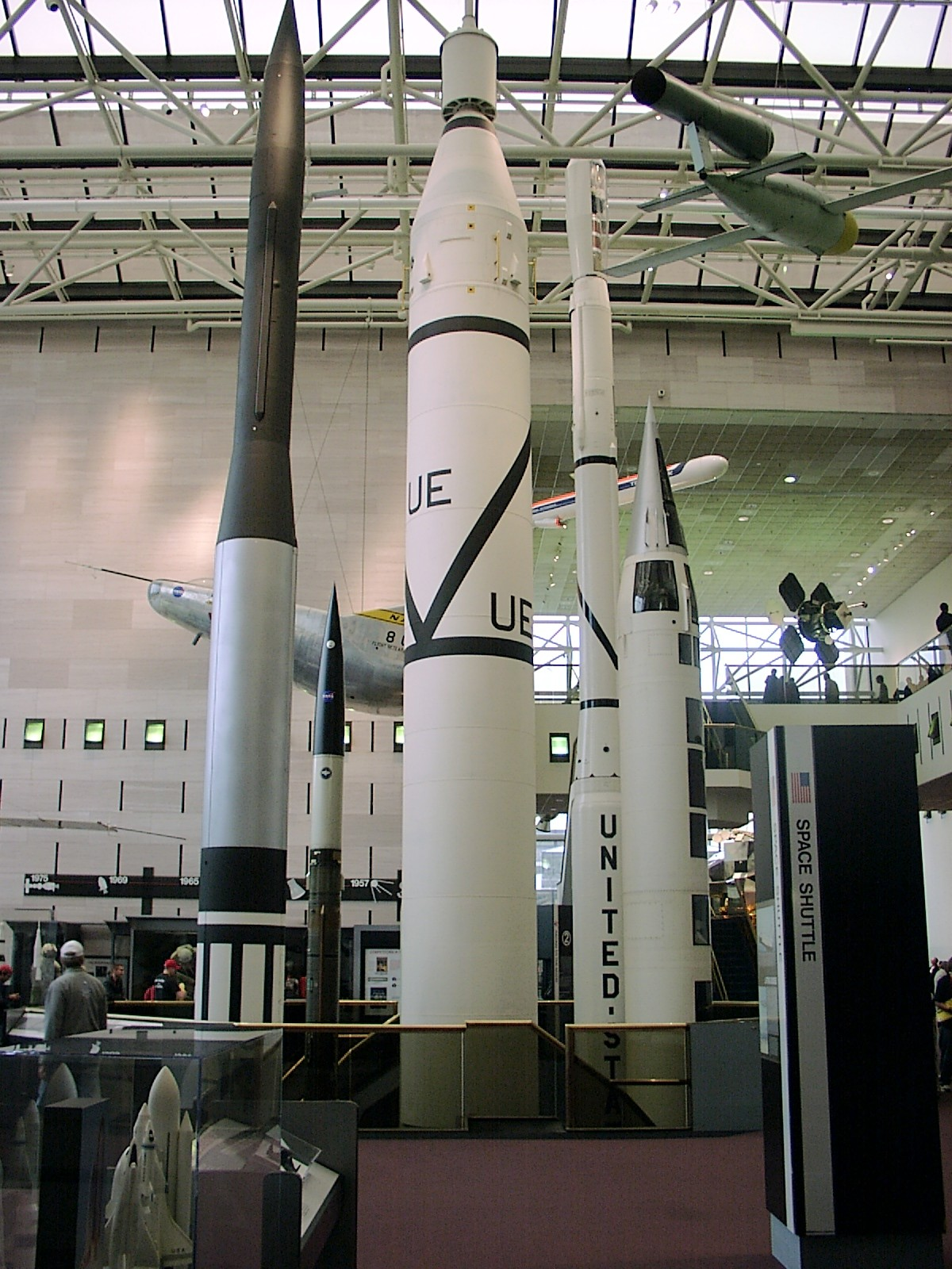 National Air and Space Museum, in Washington D.C.